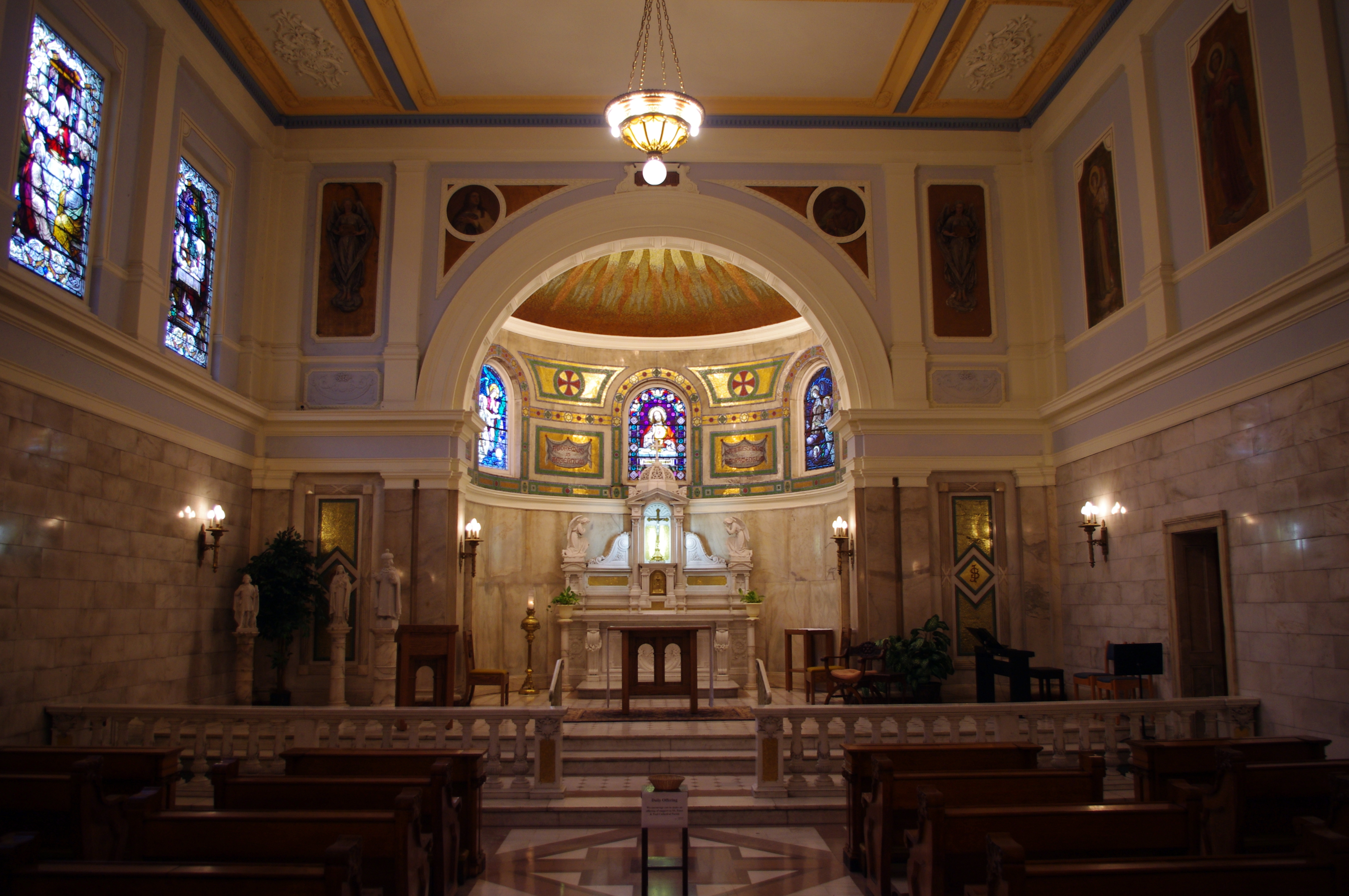 Saints Peter & Paul Cathedral (Indianapolis, Indiana), Chapel of the Blessed Sacrament, interior, nave